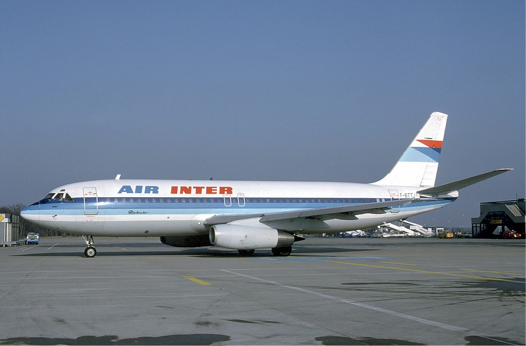 A Dassault Mercure of Air Inter at Basle Airport